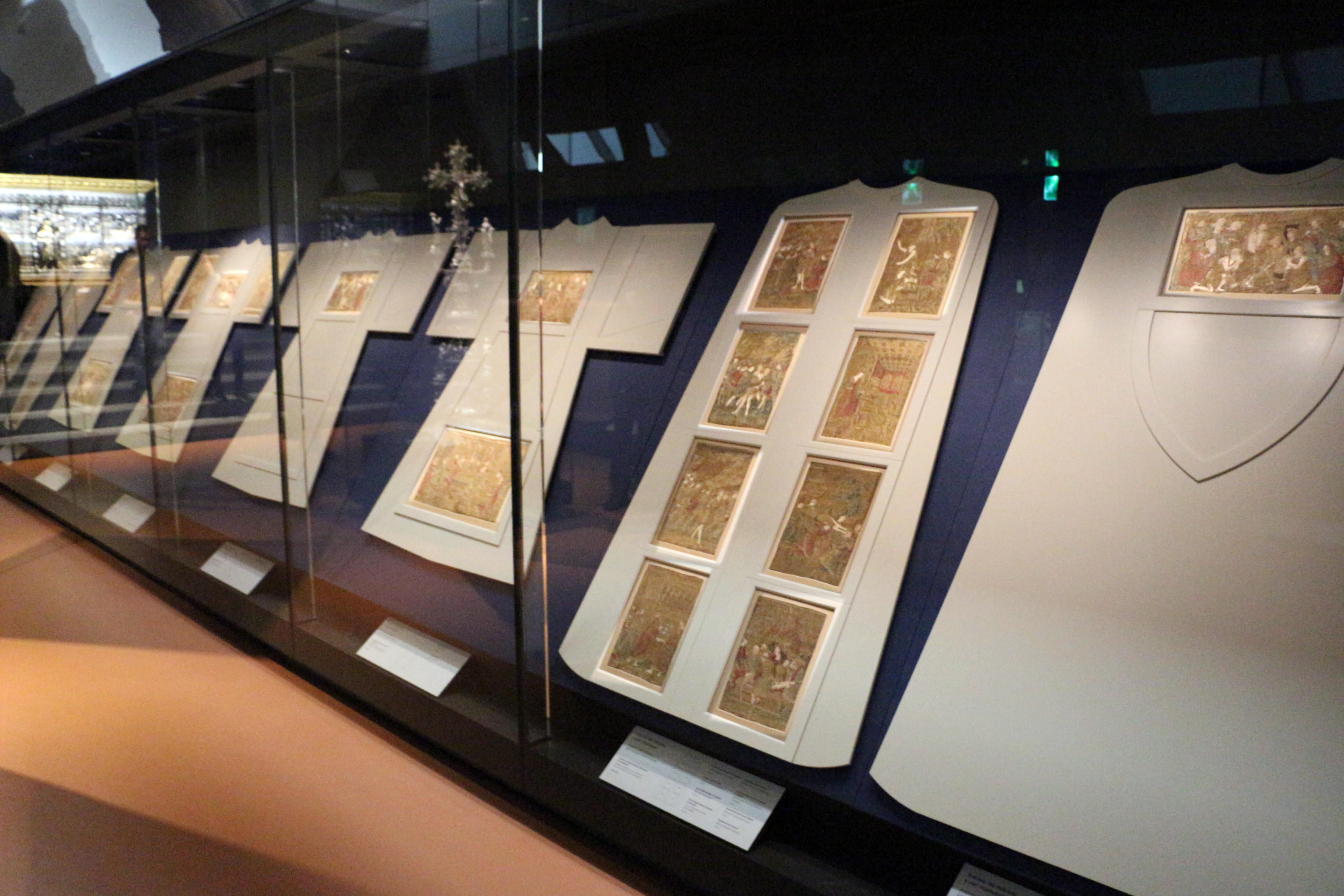 Museo dell'Opera del Duomo (Florence)